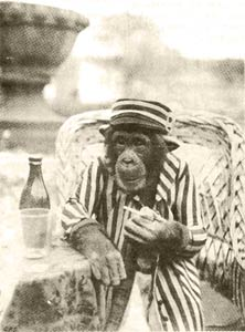 Consul was the first tame chimpanzee bought for the Belle Vue Zoo. He died a year later, on 24 November 1894.